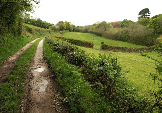 Bridleway near Tomperrow Bridleway 308/41/3 runs along the Calenick Stream valley to Tomperrow.